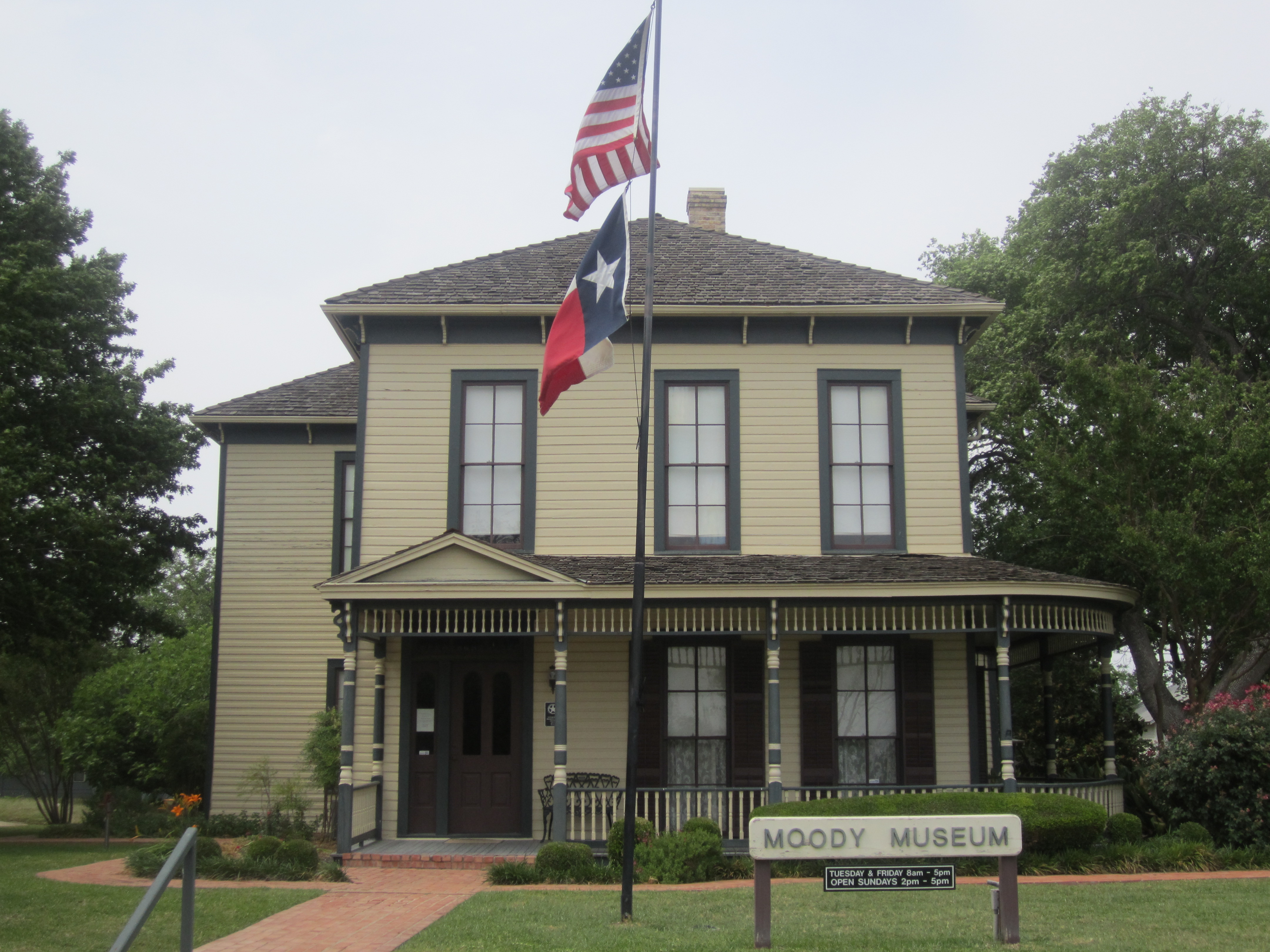 I took photo with Canon camera n Taylor, TX, using a Canon camera: Moody Museum, home of former Governor Dan Moody.